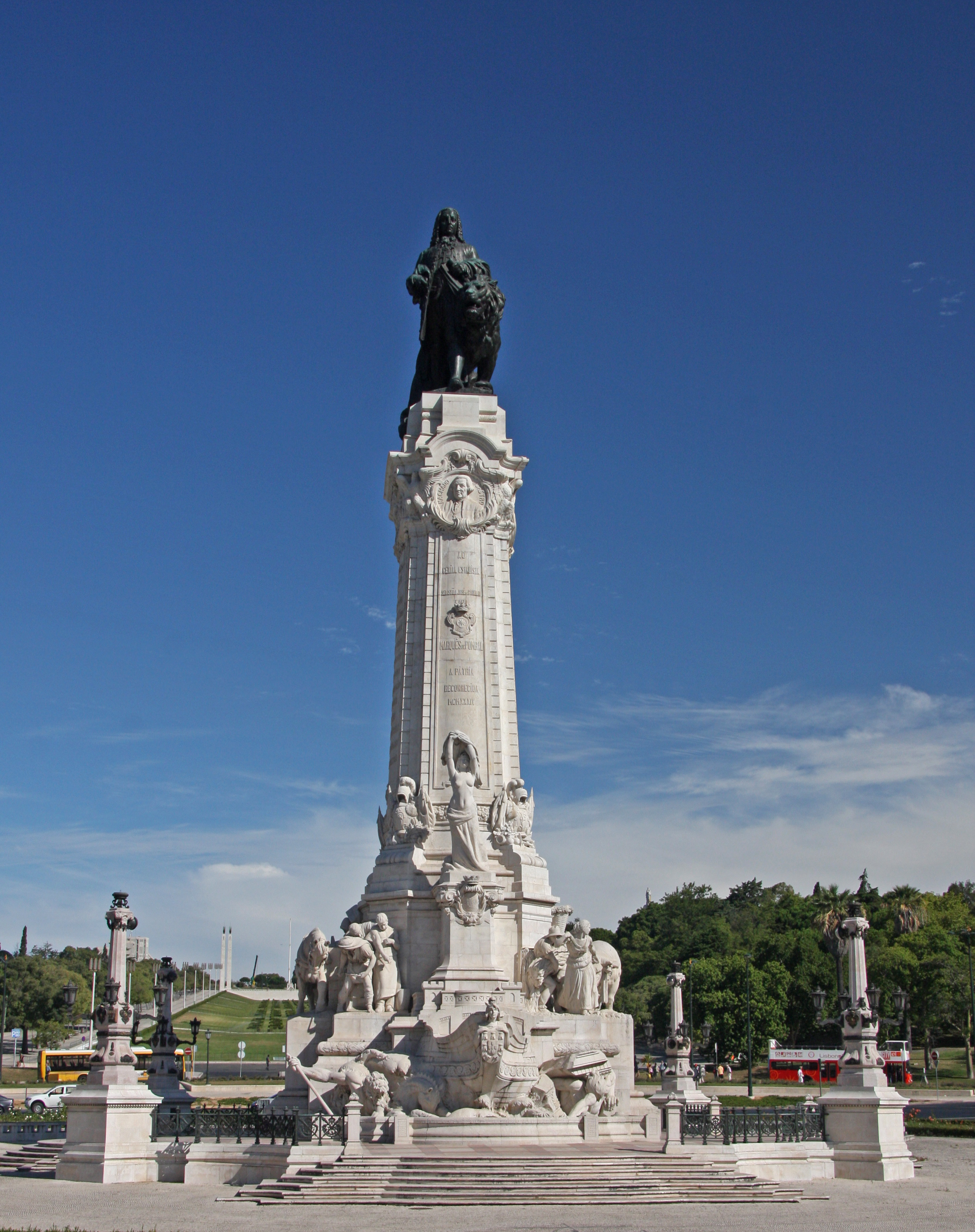 Monument to the Marquis of Pombal, the prime minister responsible for the rebuilding of Lisbon following the Great Earthquake in 1755, showing him standing on a column with his hand on a lion (symbol of power) and his eyes directed to the downtown area that he rebuilt.